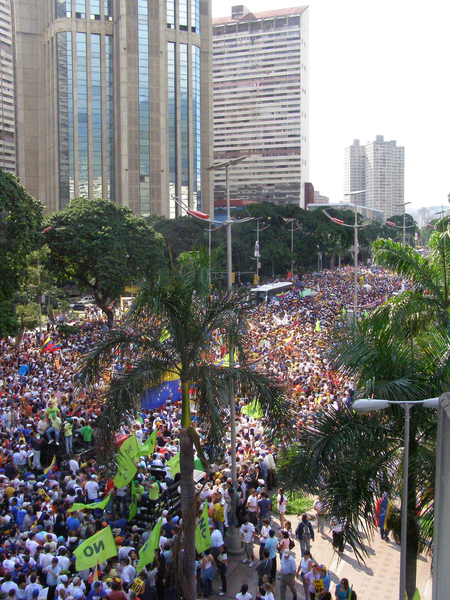 lots of people in the streets of caracas against the constitutional reform proposed by chavez. The no to the reform will win for a very narrow margin.